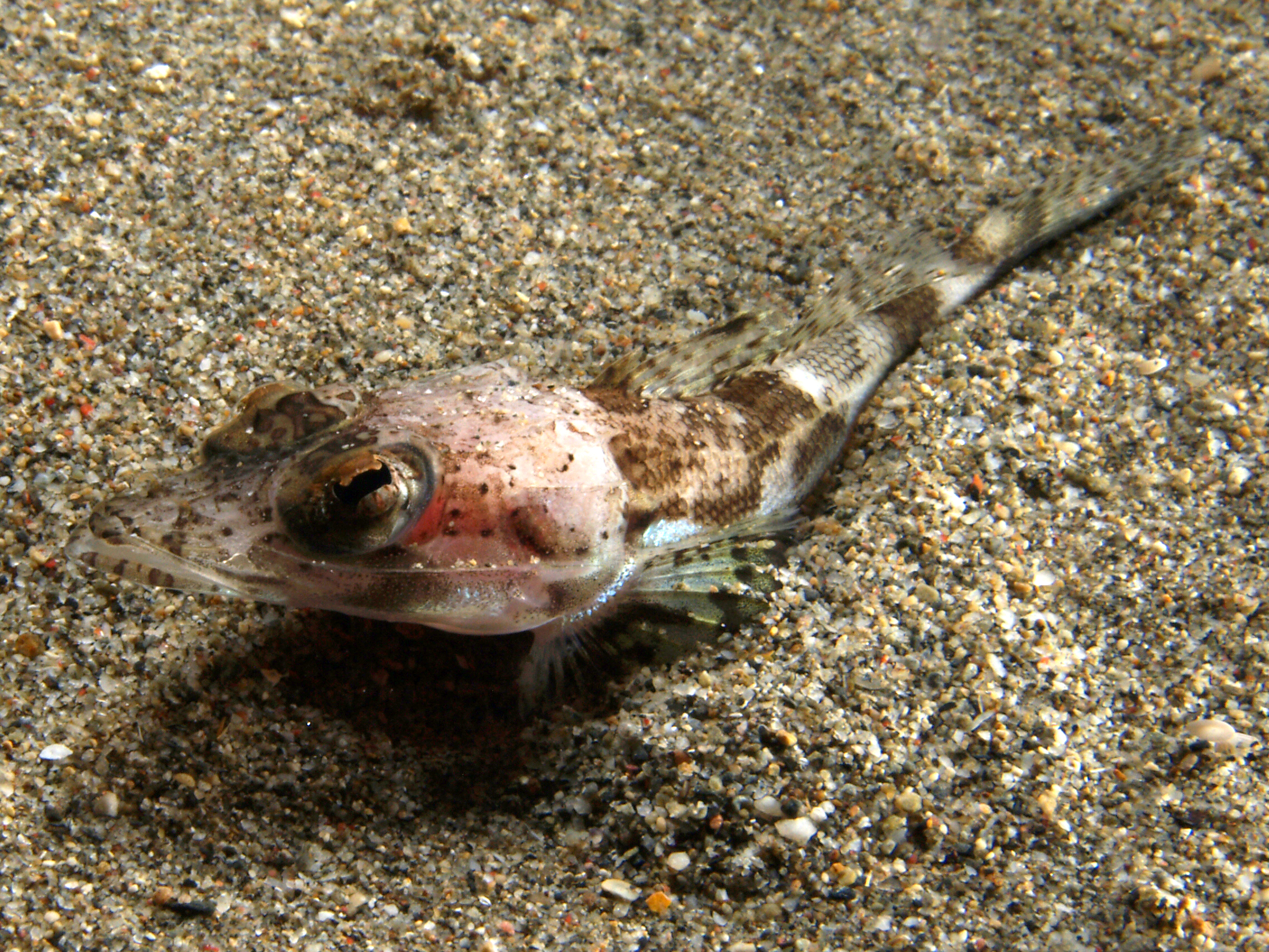 Elates ransonnetti (Dwarf flathead)